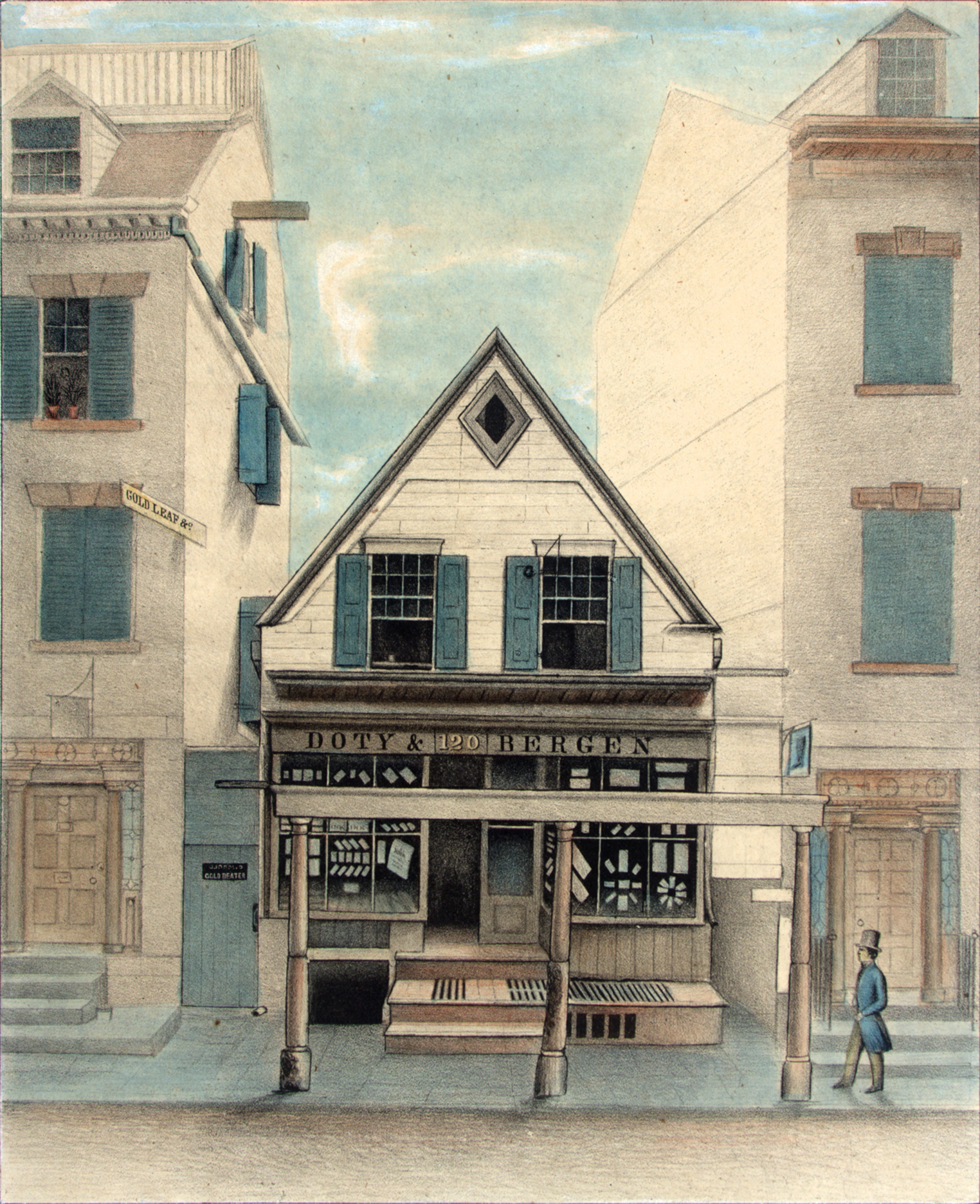 The Rigging House, 120 William Street in New York City. Cropped and retouched from 1846 lithograph.